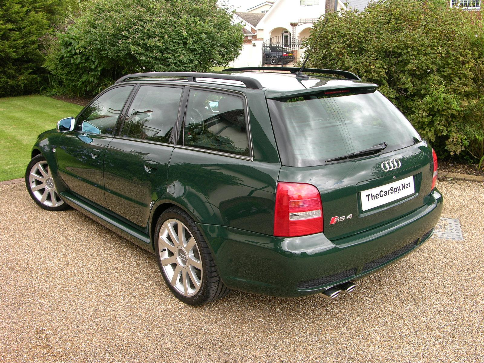 This car is for sale. Please contact us at or visit for more information.